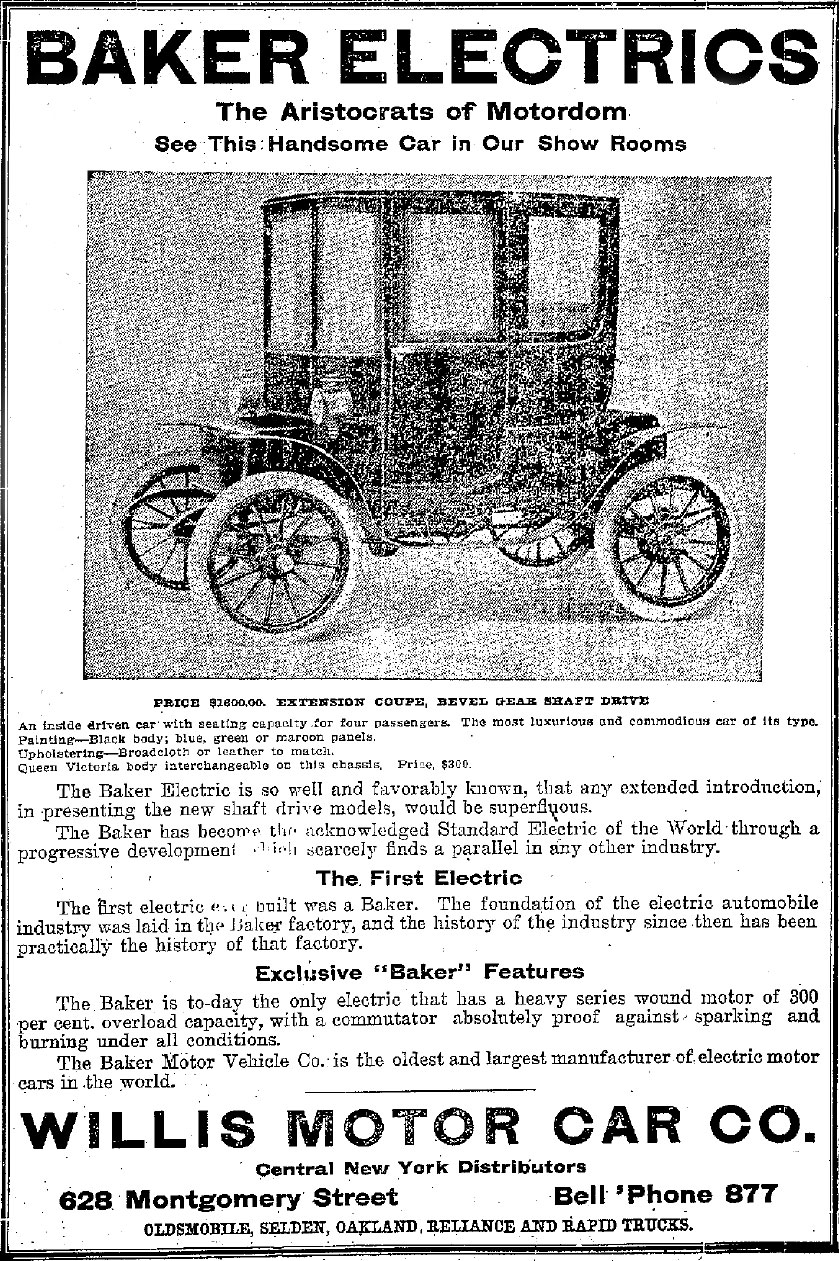 Baker Electrics - 1910 Advertisement